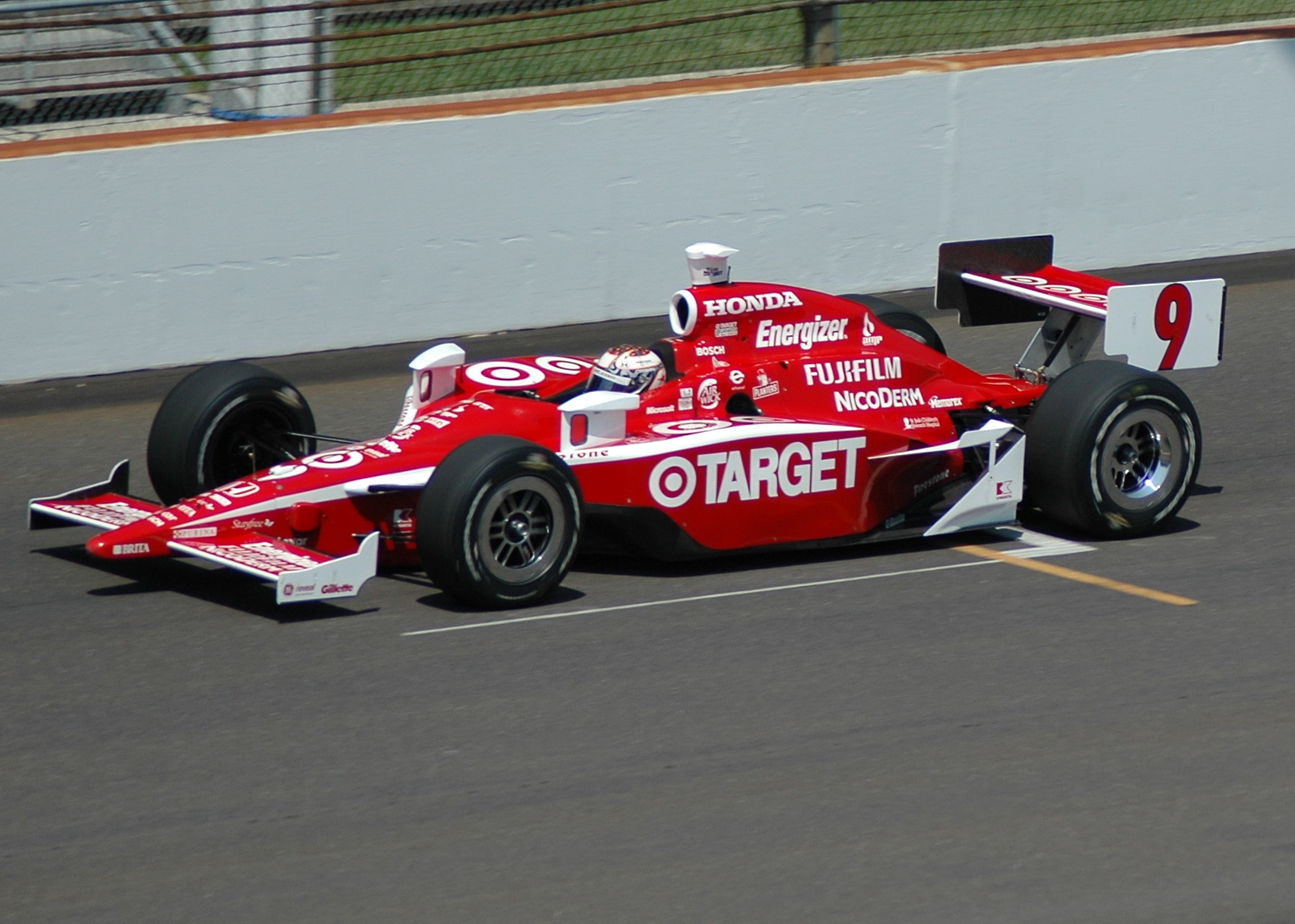 Scott Dixon practicing for the en:2007 Indianapolis 500